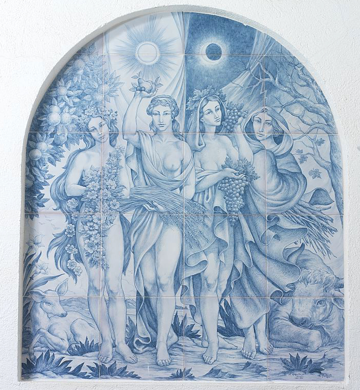 The Three Graces